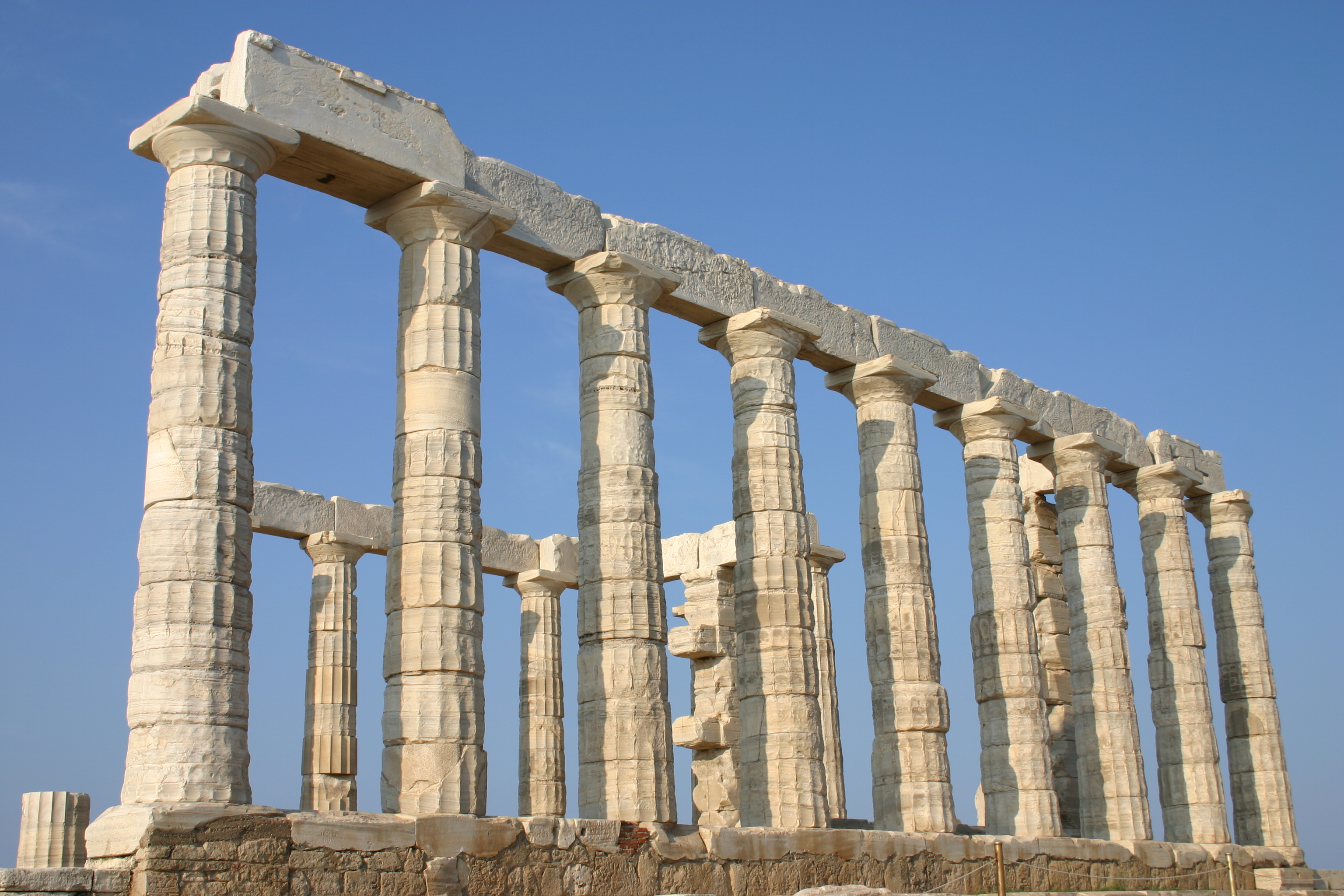 Temple of Poseidon at Ak Sounion (Attica)